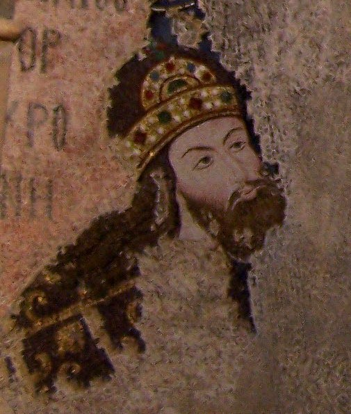 The sebastokrator Isaac Komnenos the Porphyrogennetos, son of Emperor Alexios I Komnenos. Detail from a mosaic in the Chora Church (Kariye Camii) in Edirnekapı, Fatih, Istanbul.